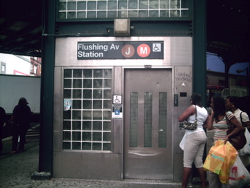 Elevator from street to Flushing Avenue station